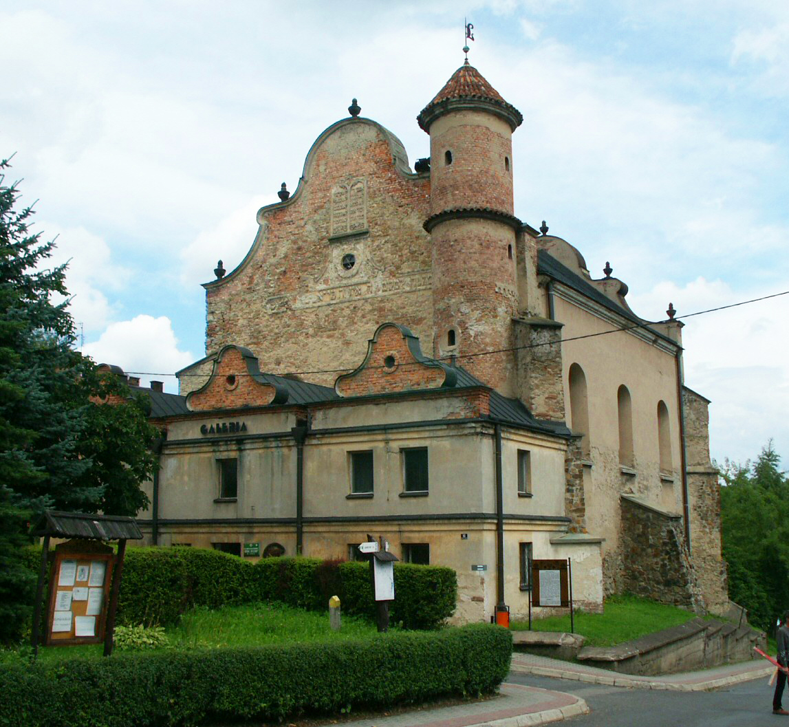 The former synagogue (17th century) in Lesko, Poland.